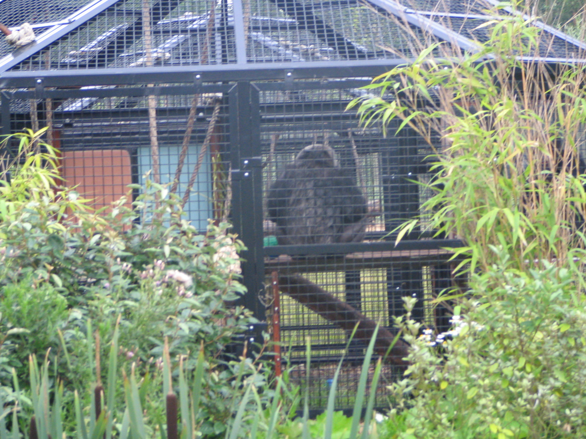 AAP Foundation.